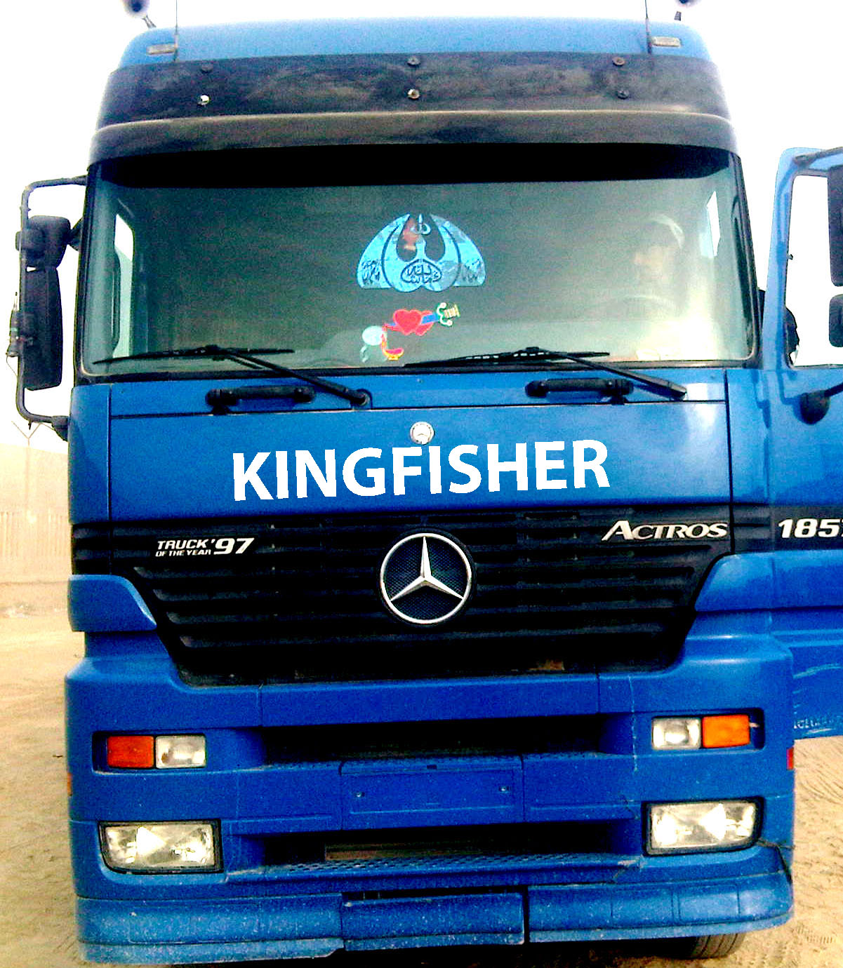 Kingfisher Logistics Trucks Mujtaba Qaderi